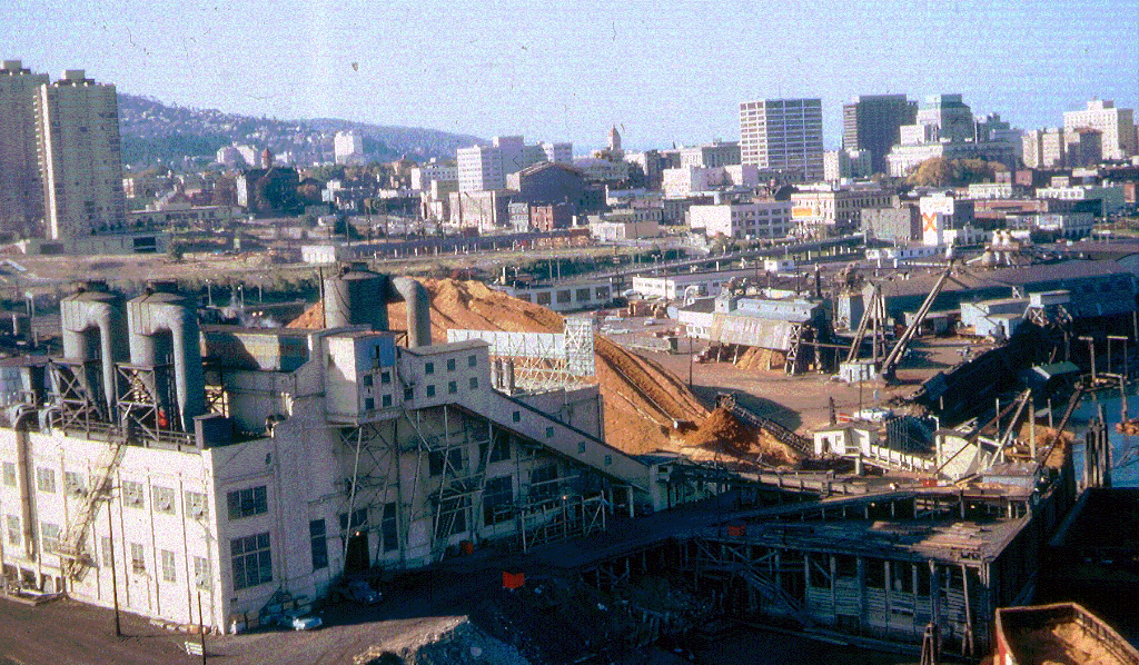 1966 slide by R. W. Rynerson shows PacifiCorp's Lincoln Station, generating electricity and steam for Downtown Portland, Oregon by burning woodchips. Lincoln station and supplier Multnomah Plywood (background) were demolished by 1970 for redevelopment.